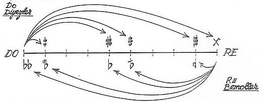 The basic notes named according to the solfege system and thus, for example, "Do" is C and "Re" is D.